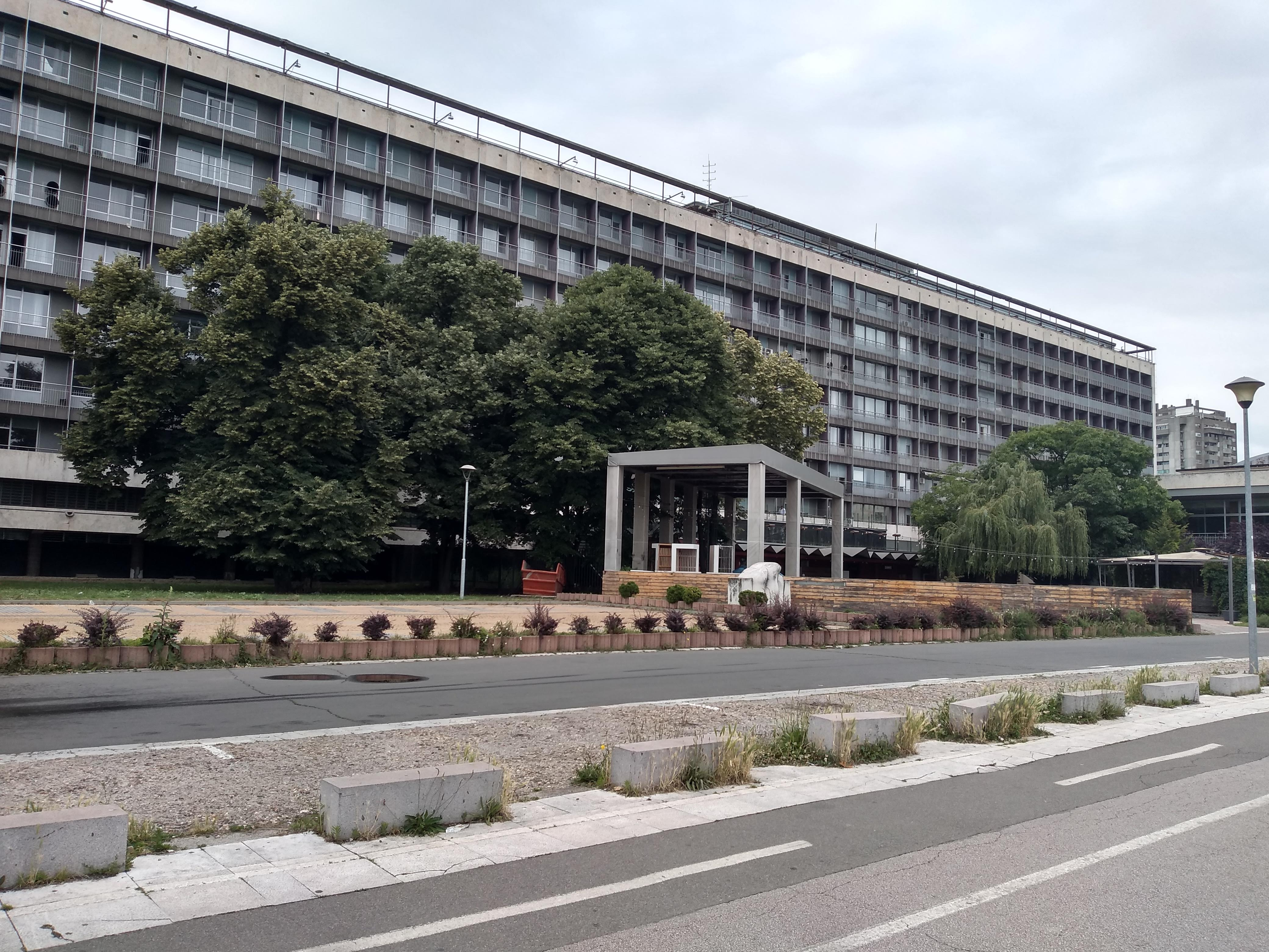 Hotel Jugoslavija, view from Kej oslobođenja (Quay of Liberation)